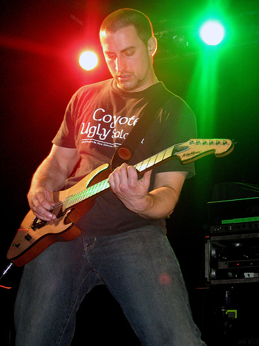 Mike Martin of All That Remains. I took this photo - it is mine - I choose to put it on Wikipedia Jubella 19:08, 2 July 2006 (UTC)